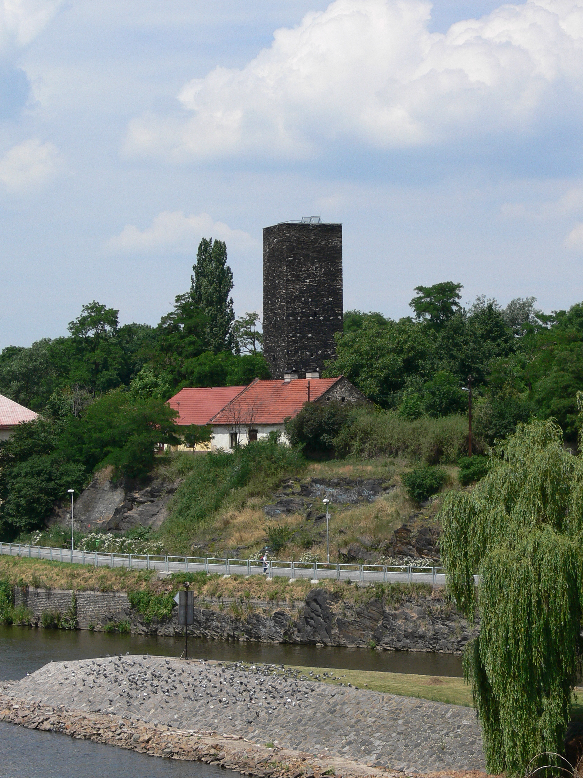 The powder tower in Kolín, CZ.